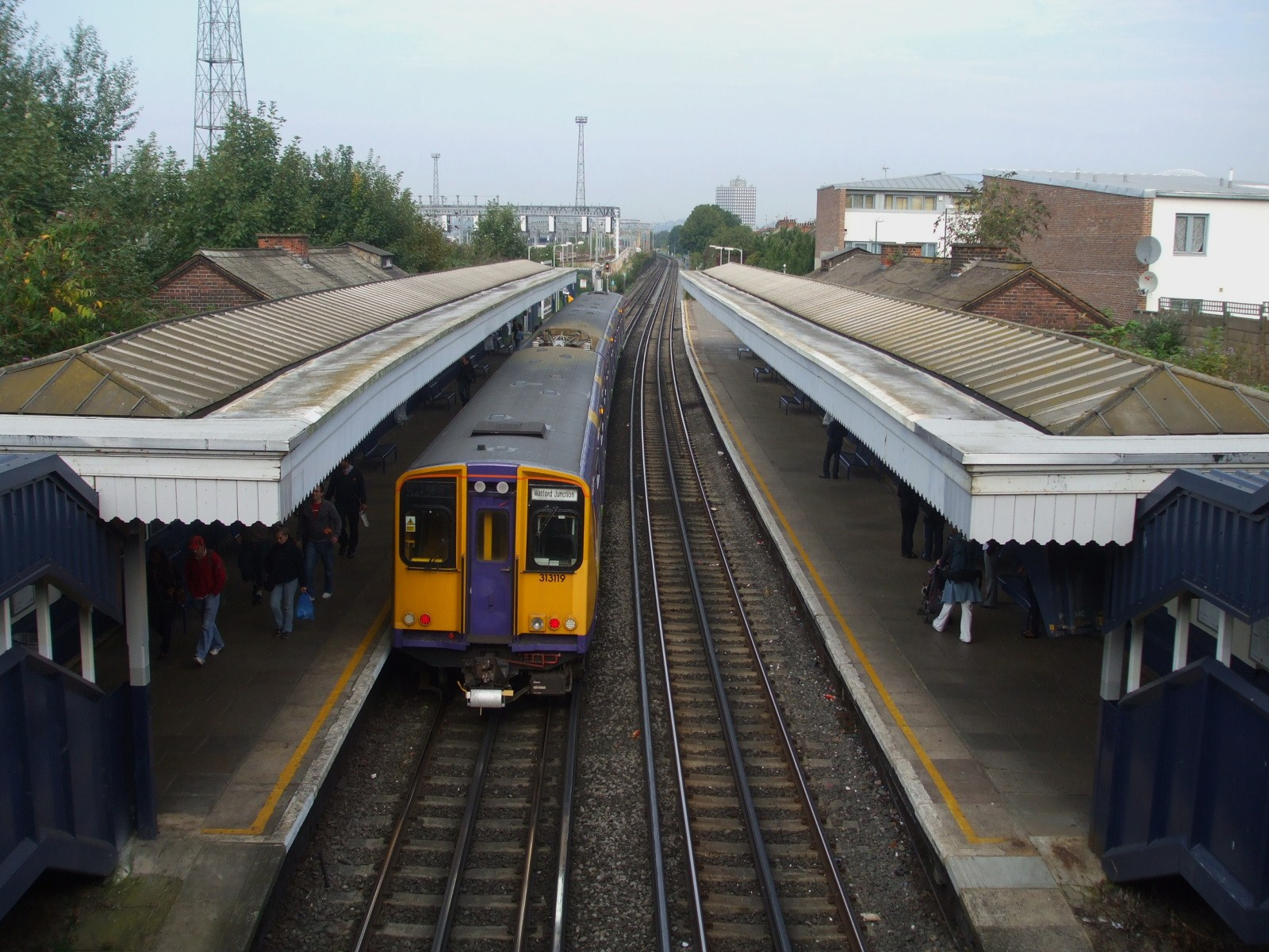 Class 313 unit 313119 calls at Harlesden station with a northbound service